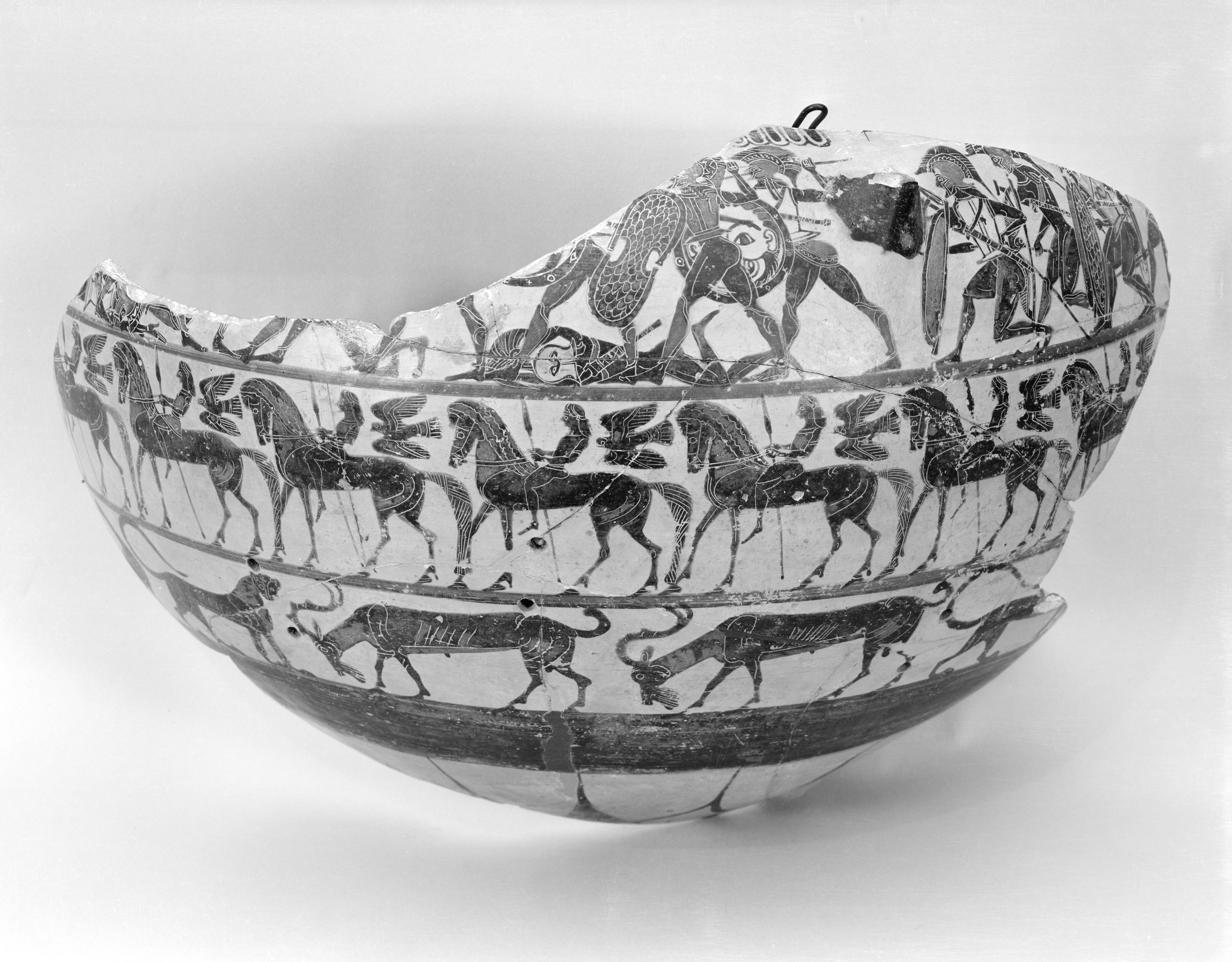 This large vase was decorated with a band of fighting warriors, a cavalcade of riders, and a band of goats and panthers.